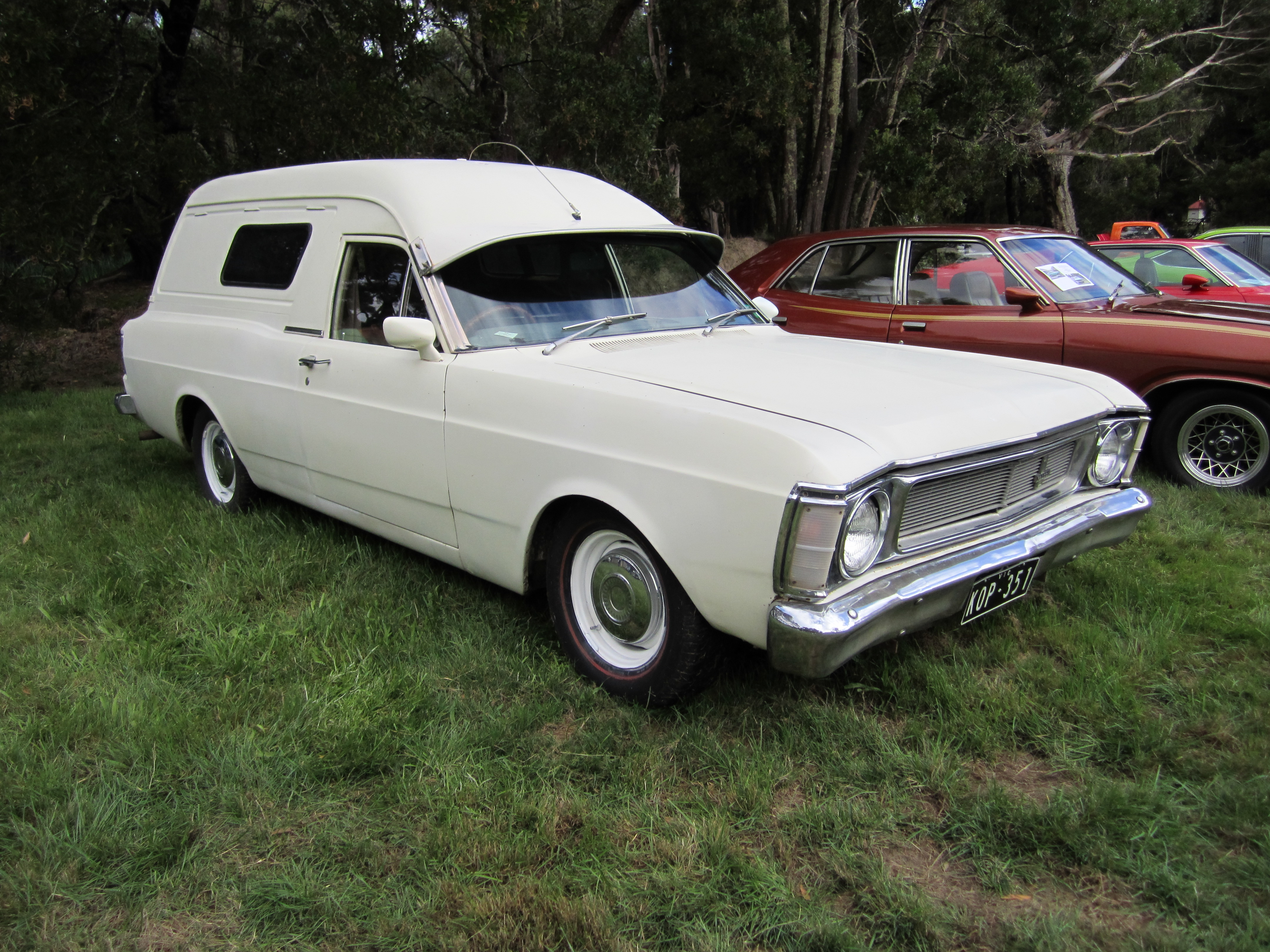 Built from June 1969-July 1970 Engines; 188 & 221 6 cyl or 302 & 351 V8s